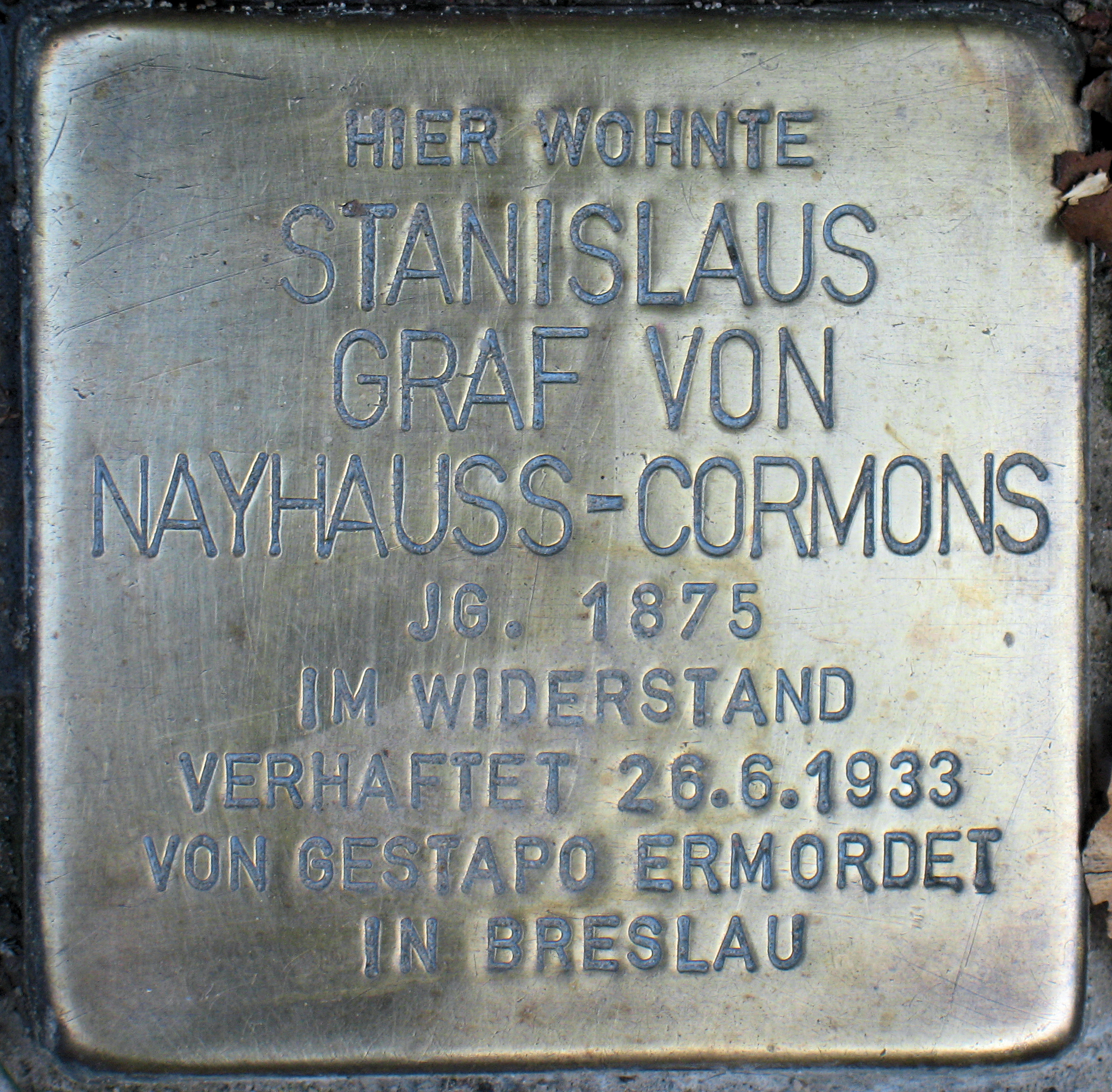 "Stolperstein" (stumbling block), Stanislaus Graf von Nayhauss-Cormons, Stierstraße 4, Berlin-Friedenau, Germany Koordinate:52°28′30″N 13°20′16″E / 52.475°N 13.33778°E